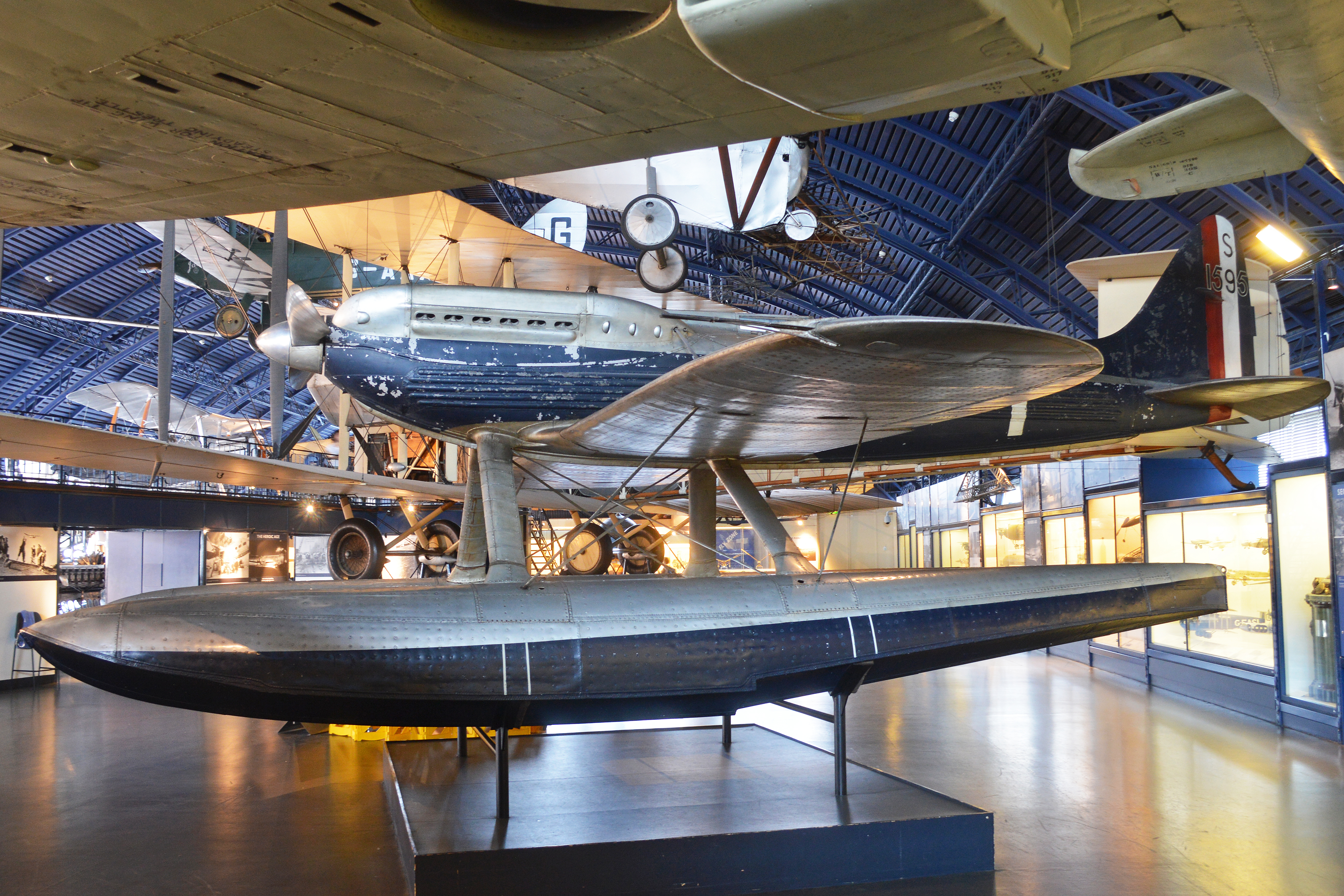 Winner of the Schneider Trophy, 1931. Designed by Reginald J. Mitchell, it was a development of Mitchell's earlier S.4 which had won the 1925 Schneider Trophy race. The S.6B was powered by a supercharged Rolls-Royce 1900 hp engine. It marked the culmination of Mitchell's quest to "perfect the design of the racing seaplane" and represented the cutting edge of aerodynamic technology. It is one of the major technical achievements in British aviation between the two world wars. Not only did the aircraft win the 1931 Schneider Trophy, but also, two weeks later, became the fastest vehicle on earth, setting an absolute speed record of 407.5 mph It joined the Science Museum in 1932 and is now on display, still unrestored, in the ‘Flight’ Hall. Science Museum, South Kensington, London. 16-6-2015